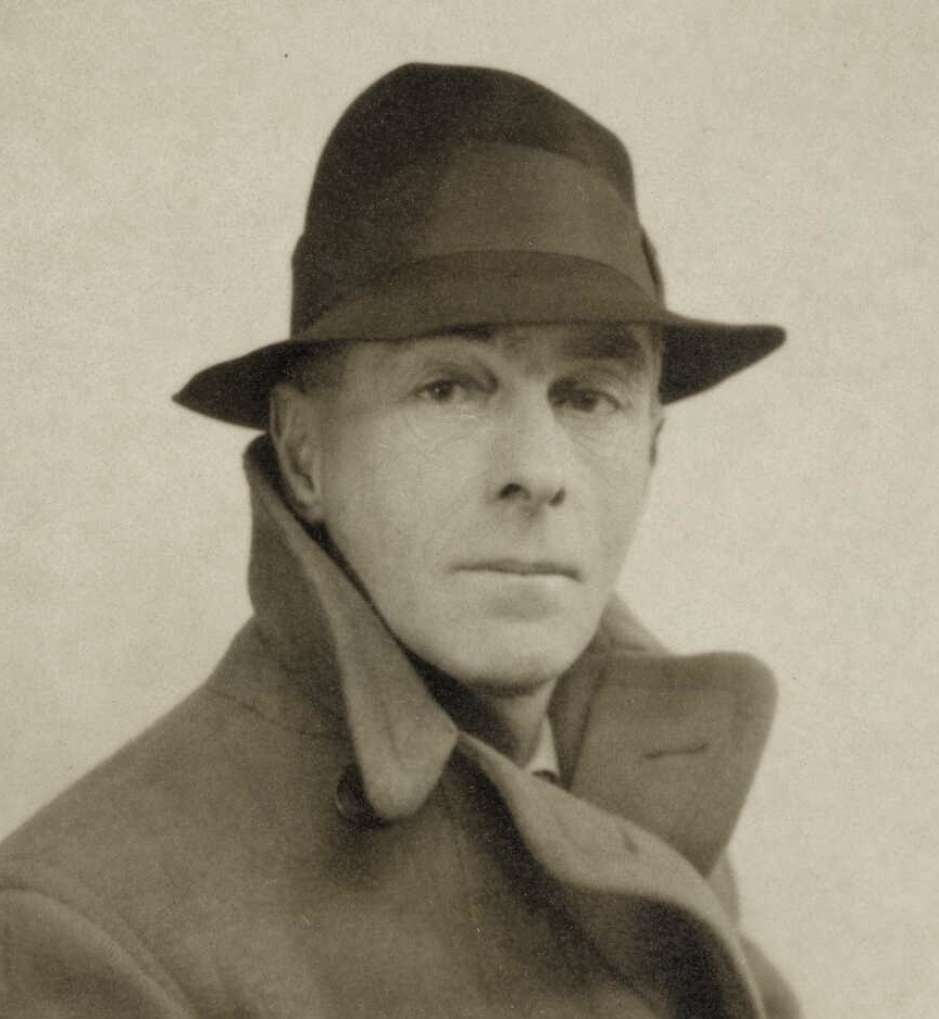 Passport photograph of Walter D'Arcy Cresswell wearing a hat and coat, taken ca 20 December 1948 by an unknown photographer.